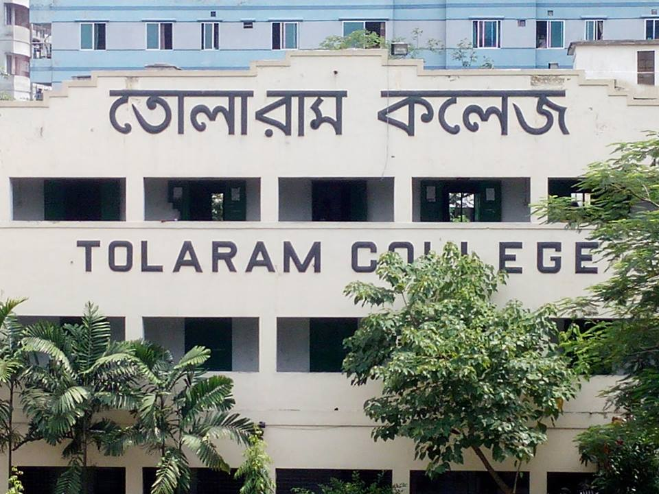 Govt. Tolaram College